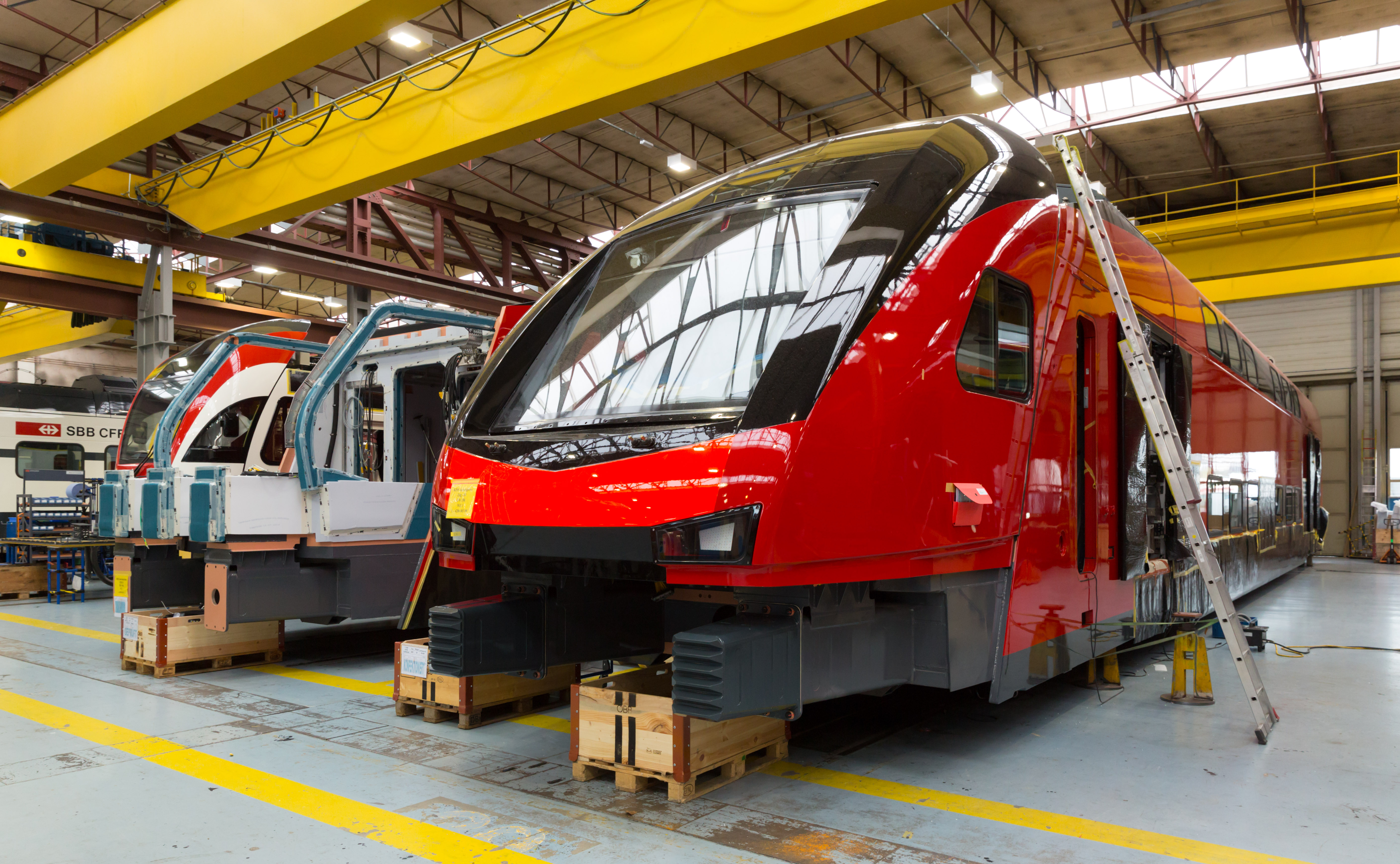 Stadler KISS ESh2-001 for Aeroexpress being built at the Stadler works at Altenrhein, Switzerland.